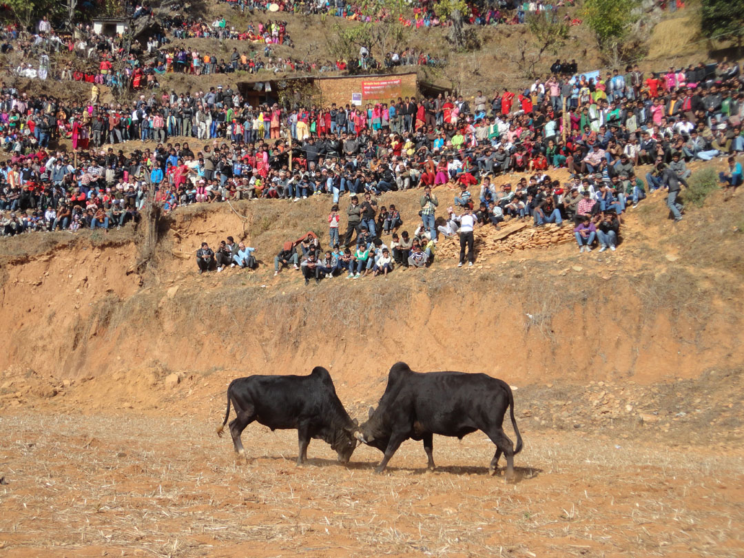 A cultural festival of Nepal that occur on the first day of month of Magha.